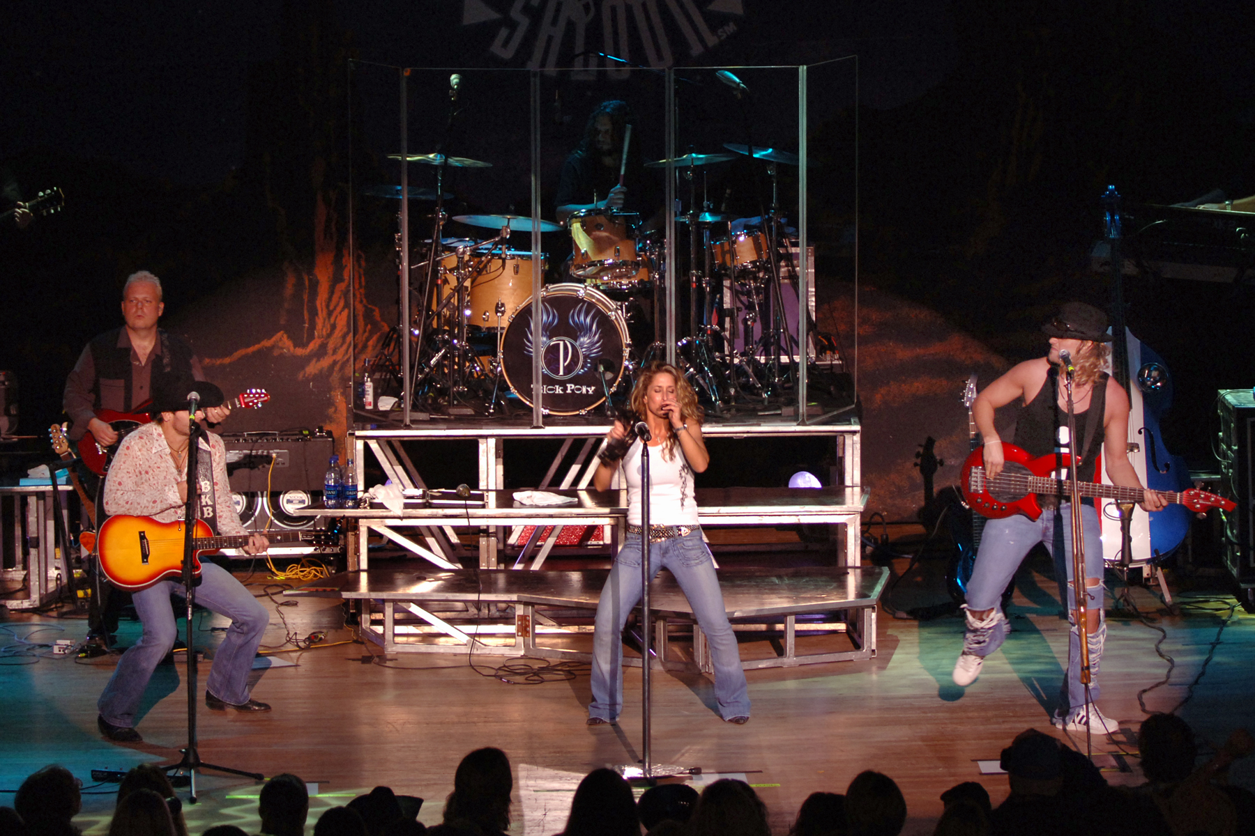 Trick Pony's Ira Dean (right), Heidi Newfield and Keith Burns will gallop into Germany, Turkey, Iceland and one or more deployed locations in Southwest Asia during Operation Season's Greeting, Nov. 21 to Dec. 3. Joining the country musicians on the show trail will be Blues Traveler's John Popper, the New England Patriot Cheerleaders and musicians from the Band of the U.S. Air Force Reserve and the U.S. Air Forces in Europe Band. Trick Pony's newest CD "R.I.D.E." was in the top 20 of the Billboard 200 all-genre chart during its first week in stores. (U.S. Air Force photo by Ken Hackman)